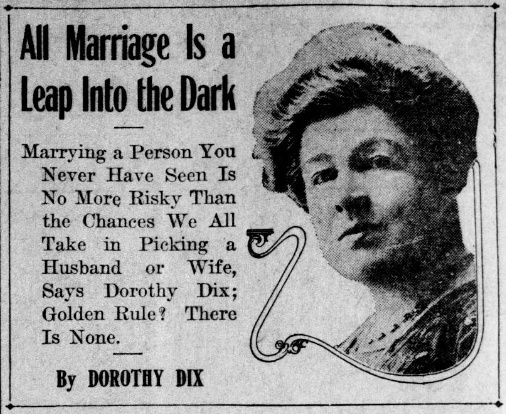 Header of a 1913 advice column. Text reads: All Marriage Is a Leap Into the Dark. Marrying a Person You Never Have Seen Is No More Risky Than the Chances We All Take in Picking a Husband or Wife, Says Dorothy Dix; Golden Rule? There Is None.